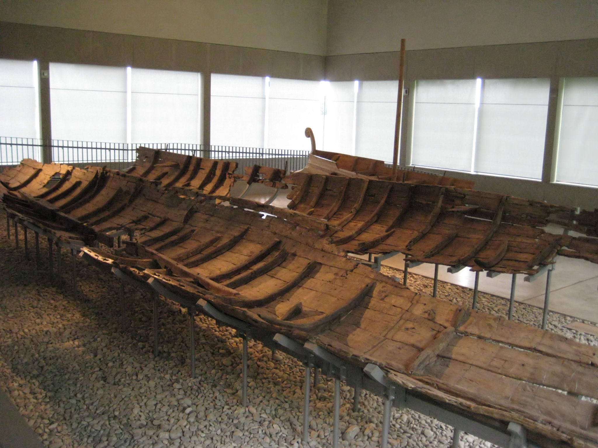 Roman military ships, dating from around 100 AD. On display in the Kelten Römer Museum at Manching, Germany.